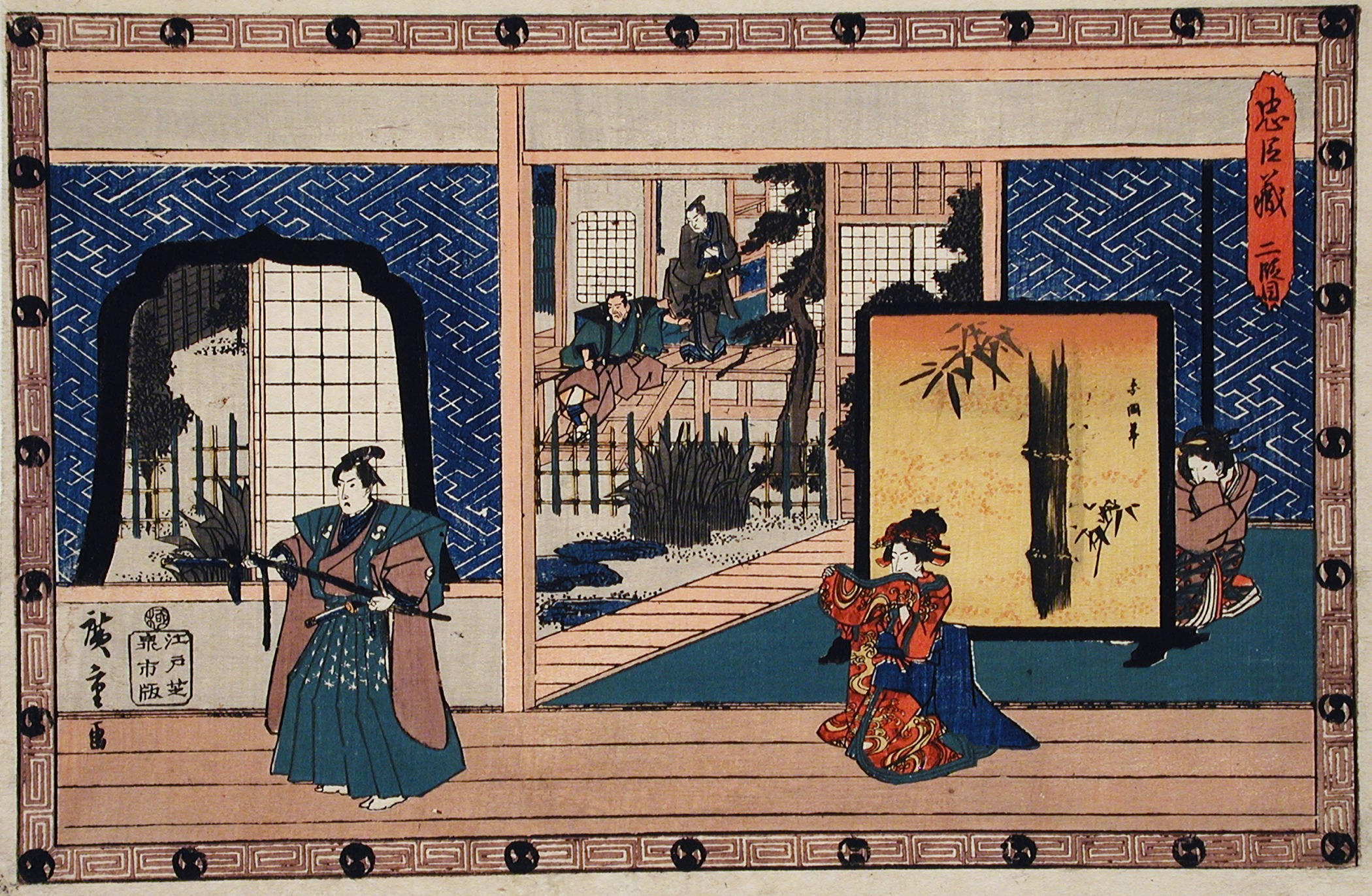 Japan, circa 1835-1839 Prints; woodcuts Color woodblock print Image: 9 1/8 x 14 3/16 in. (23.3 x 36.0 cm); Sheet: 9 15/16 x 14 11/16 in. (25.2 x 37.3 cm) Gift of Dr. Harvey Eagleson (M.66.35.47) Japanese Art